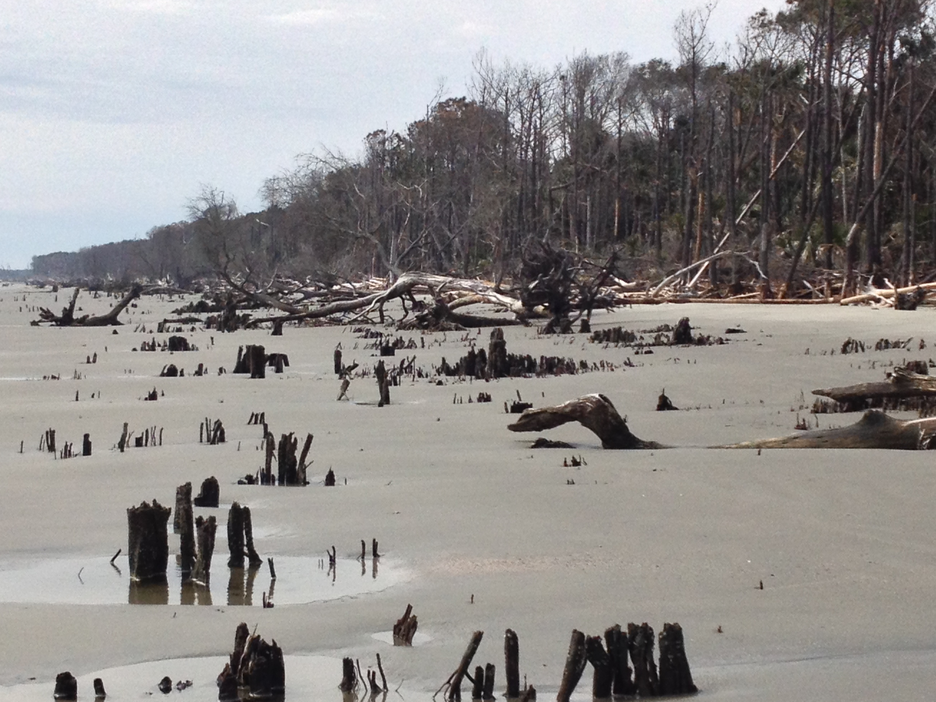 Looking down the beach to the southwest on Capers Island, South Carolina.